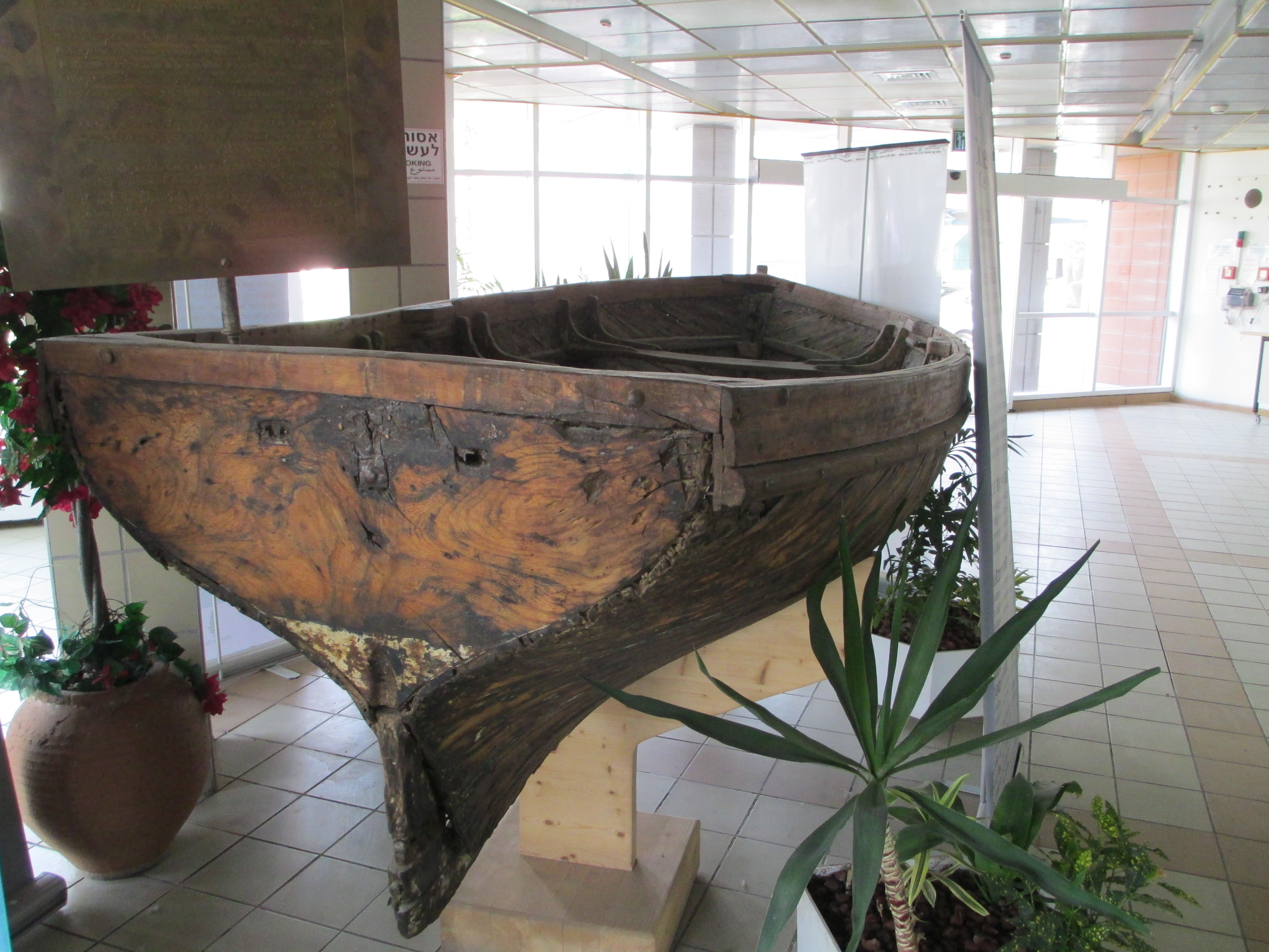 The Molyneux boat